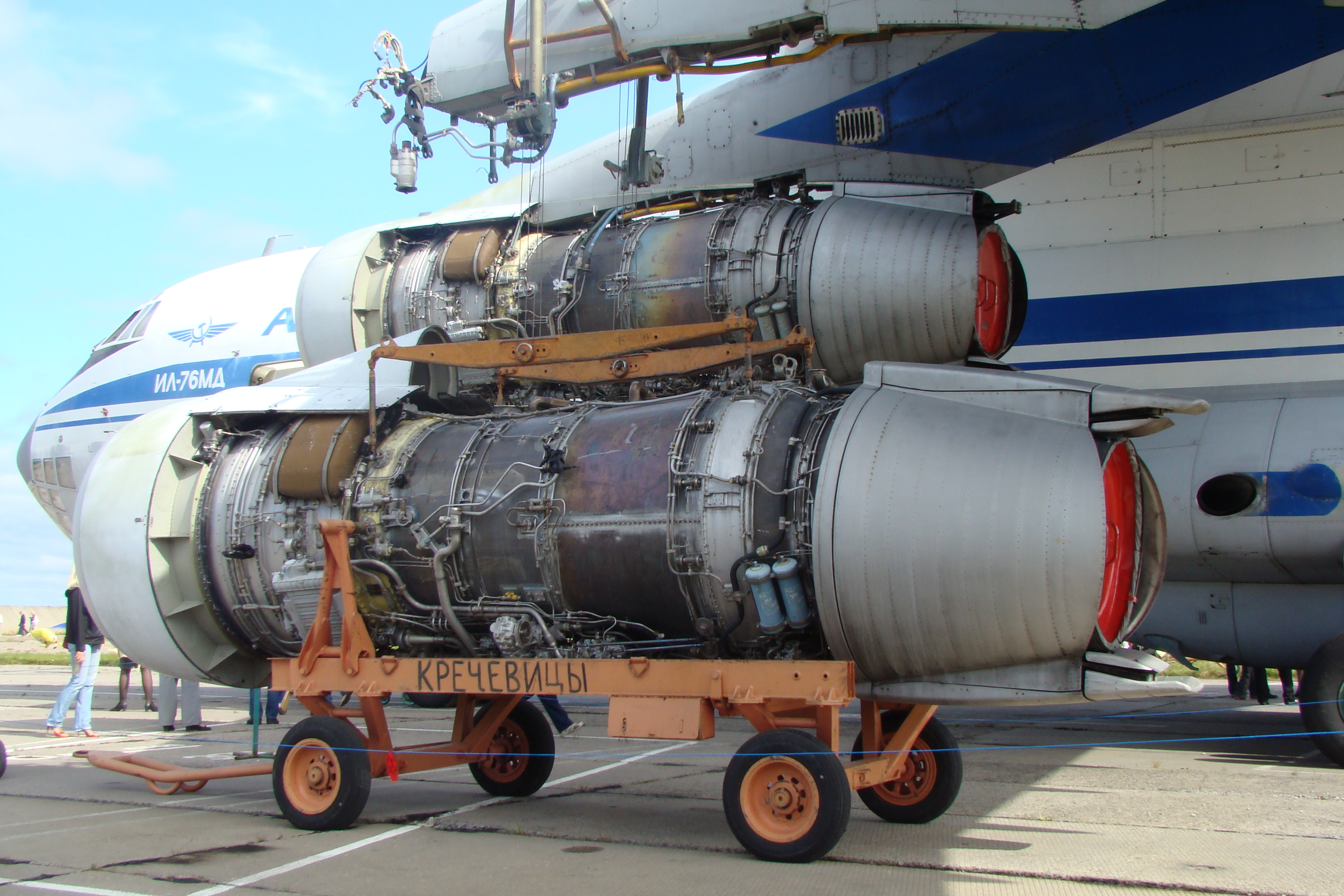 Jet engines Ilyushin Il-76MD, Solowjow D-30 Series